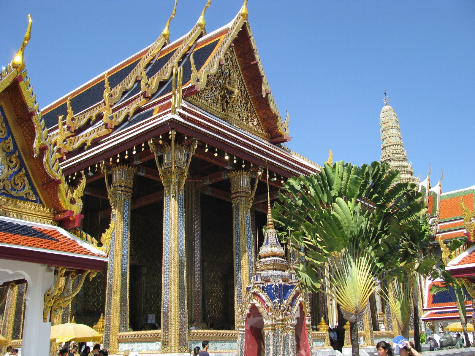 This is Main hall of theTemple of the Emerald Buddha, Located in Phra Nakhon, Bangkok, Thailand.